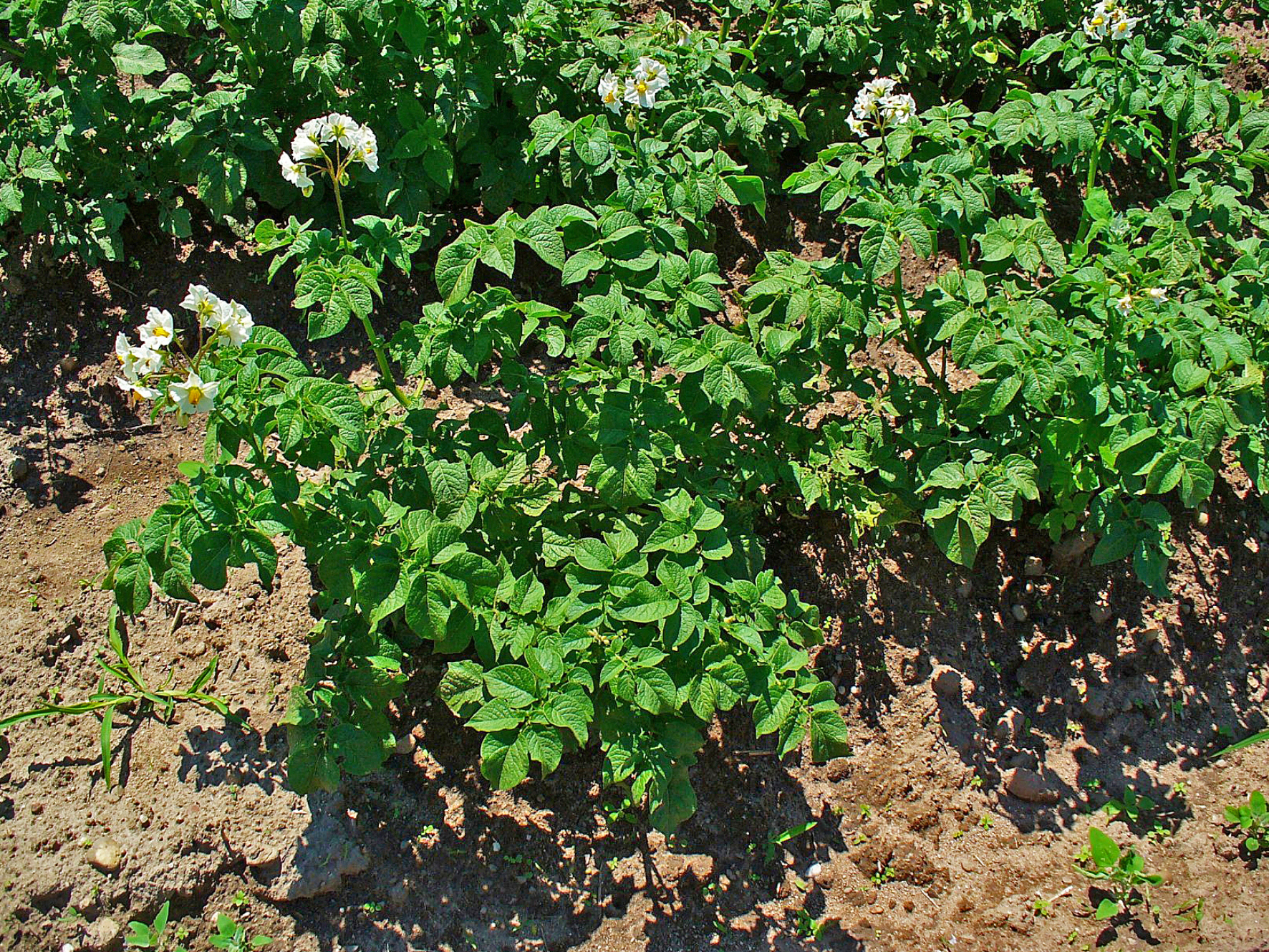 Solanum tuberosum, Solanaceae, Potato, habitus. Stutensee, Germany